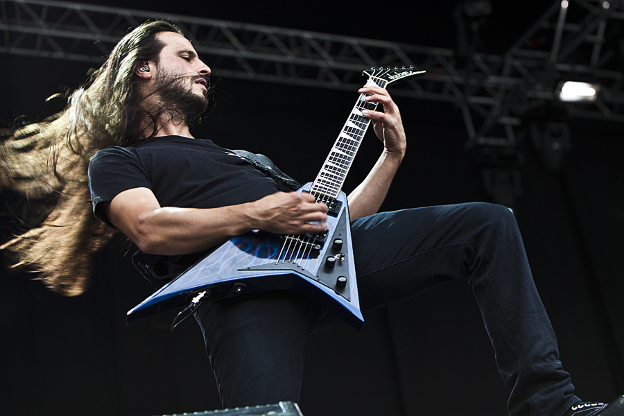 Christian Andreu of Gojira, live at Bergen Calling, Norway 2011